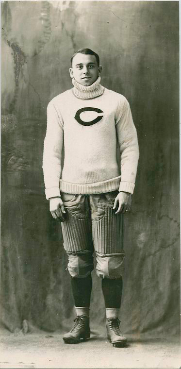 Walter Steffen, from a photograph courtesy of Alonzo Stagg, University of Chicago